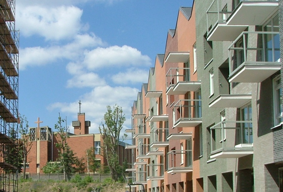 Poznan, Male Naramowice District & Church.